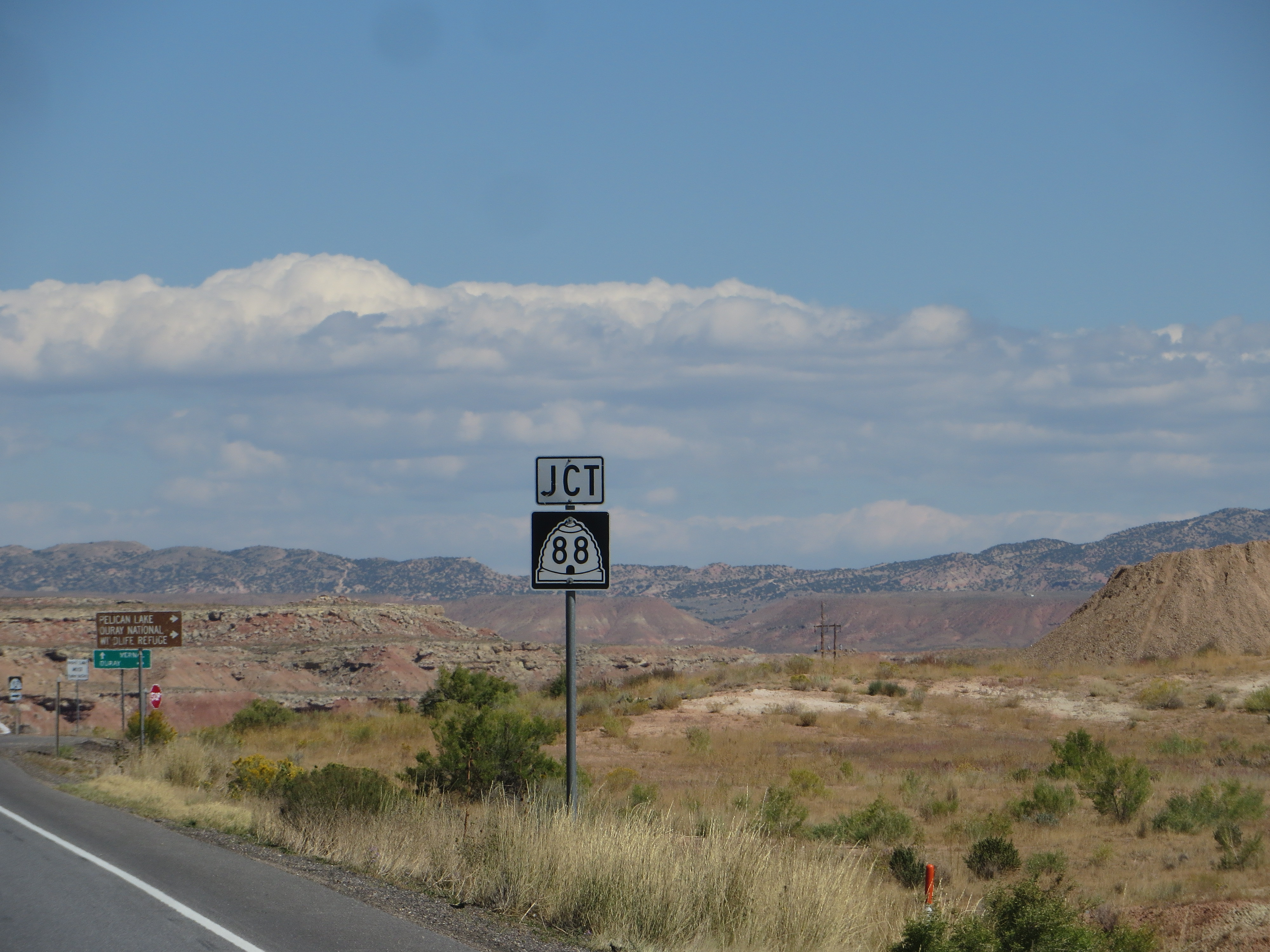 US Routes 40 and 191 approaching Utah State Route 88